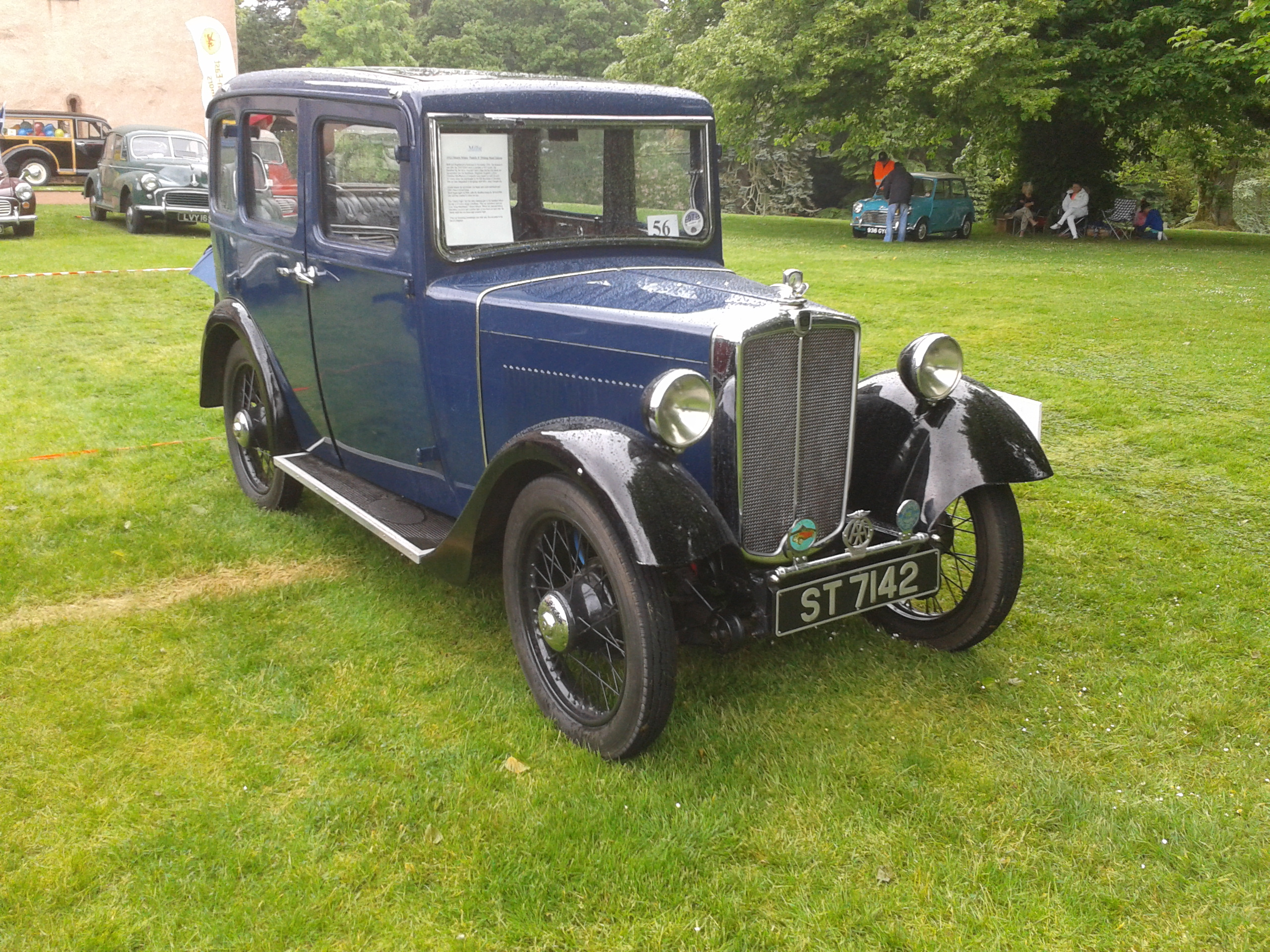 Morris Minor 4-door saloon 1932(DVLA) first registered 15 November 1932, 885cc